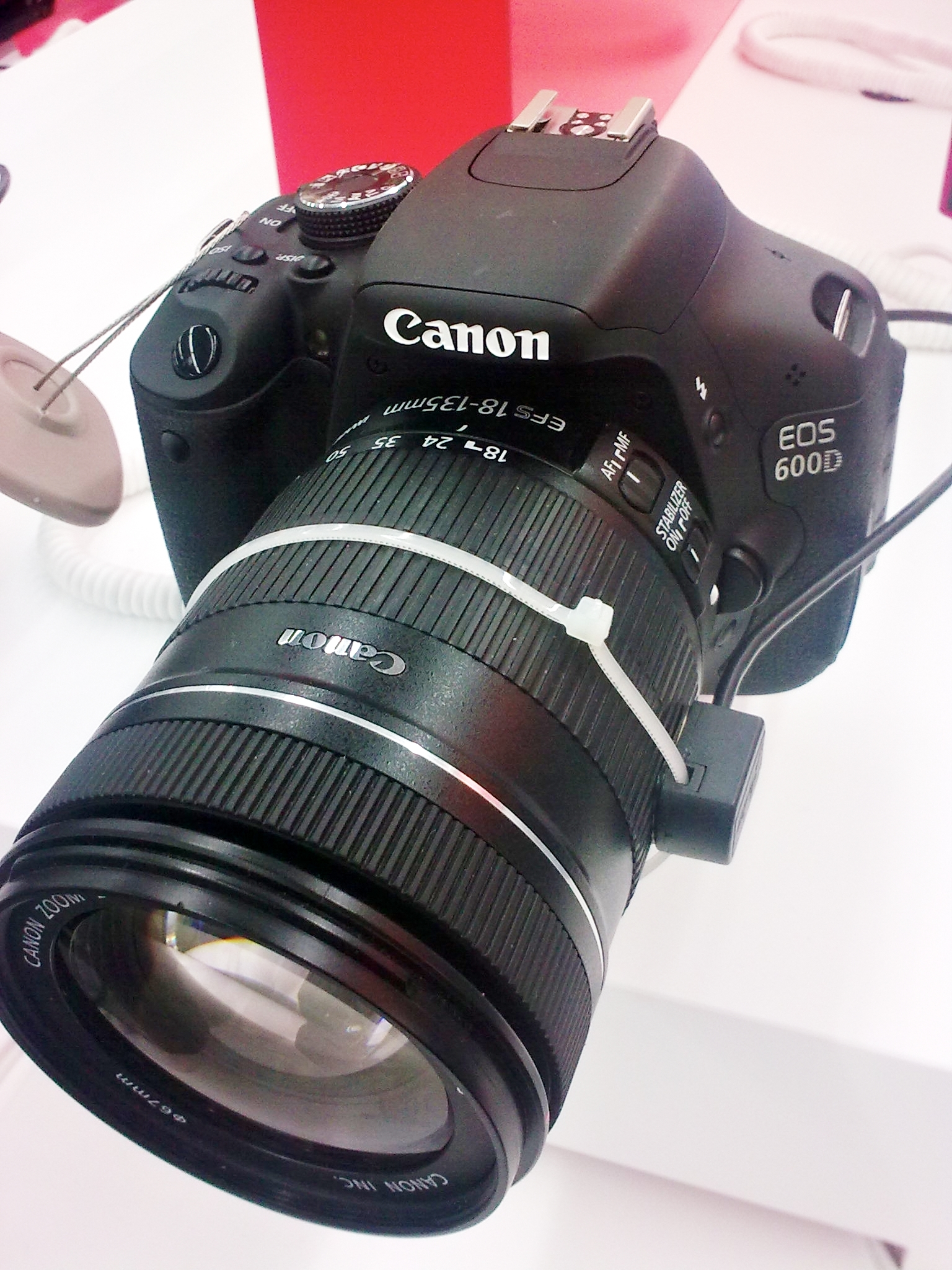 Canon EOS 600D